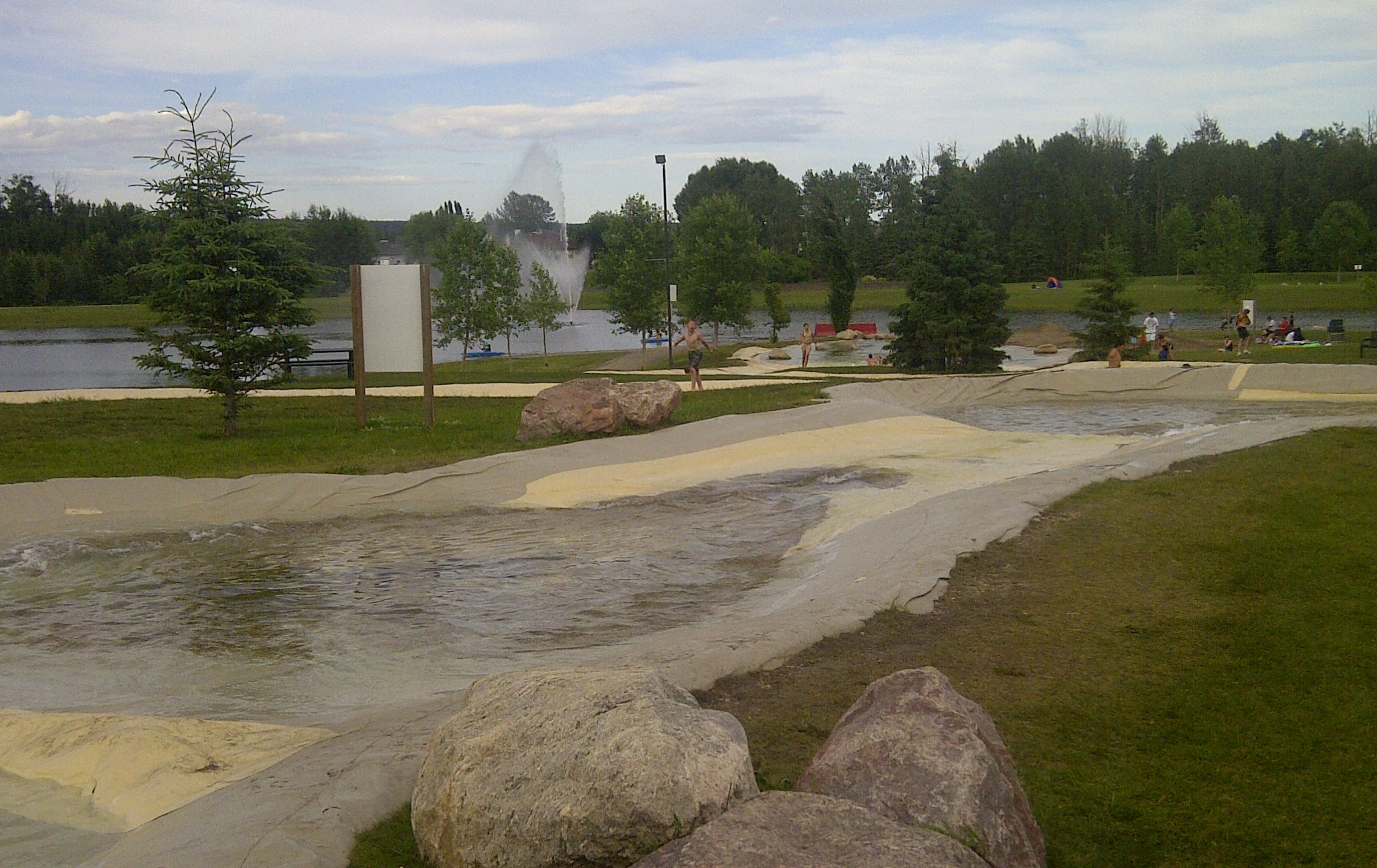 The Whitecourt River Slides facility in Whitecourt's Rotary Park